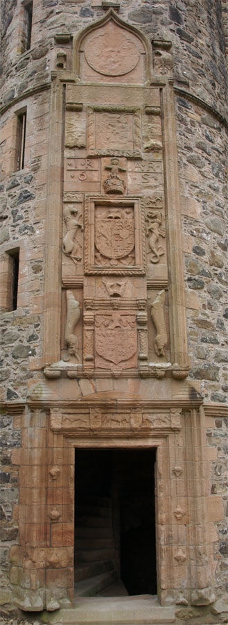 Huntly Castle (Aberdeenshire, Scotland) - frontispiece